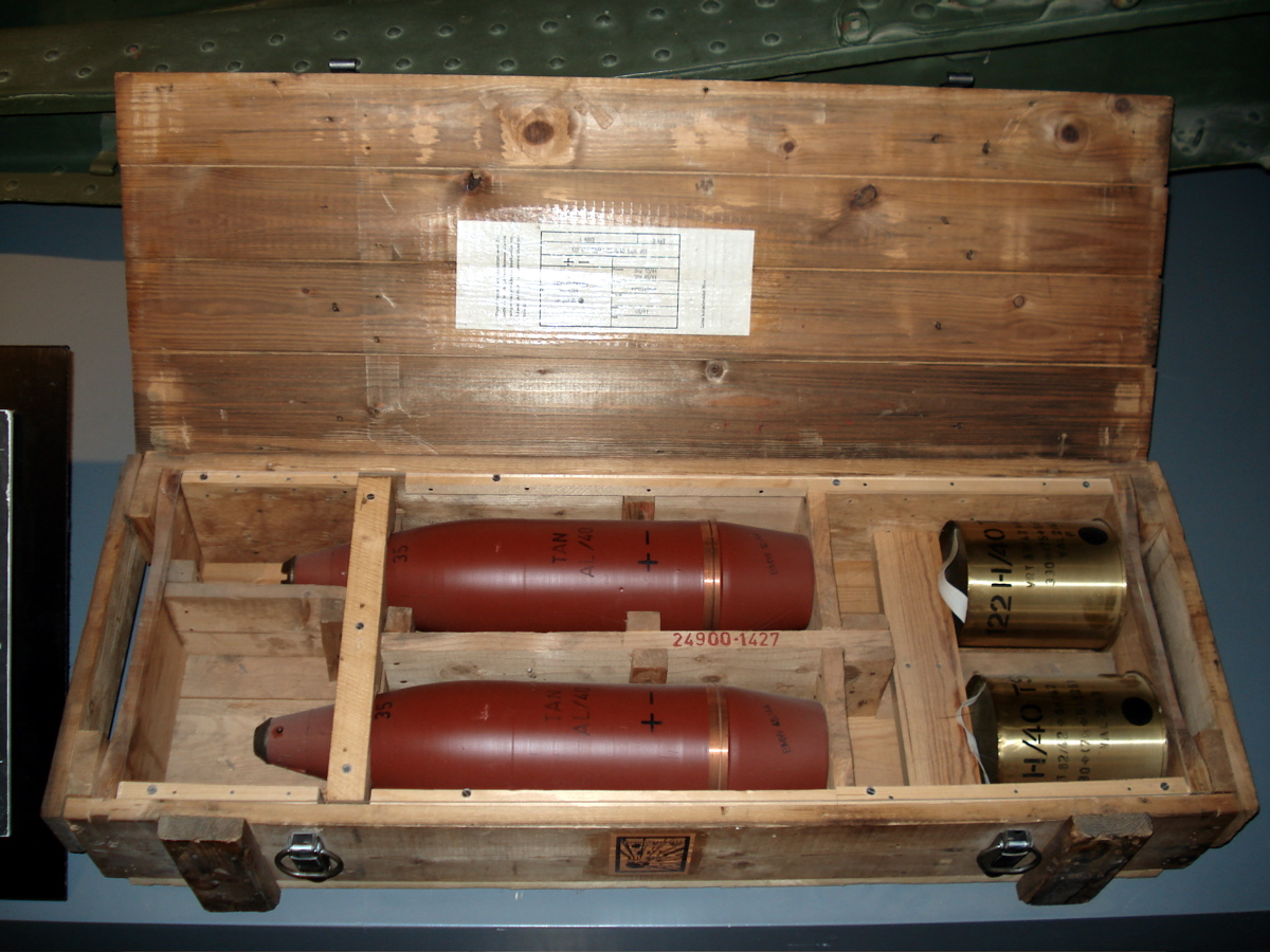 Ammunition for the Soviet 122 mm howitzer Model 1910-1930, displayed in Hämeenlinna Artillery Museum. This particular gun was manufactured in Perm in 1926. The Model 1910 howitzer was based on a French Schneider design. They were produced in Imperial Russia and then in the Soviet Union. As was typical for most World War I artillery pieces, the gun was modernised from 1930 onwards, the resulting guns called Model 10-30. One part of the modernization consisted of the addition of a muzzle brake, which is missing on this particular gun. Photo taken on June 18, 2006. Source: Photo by me, User:Balcer.